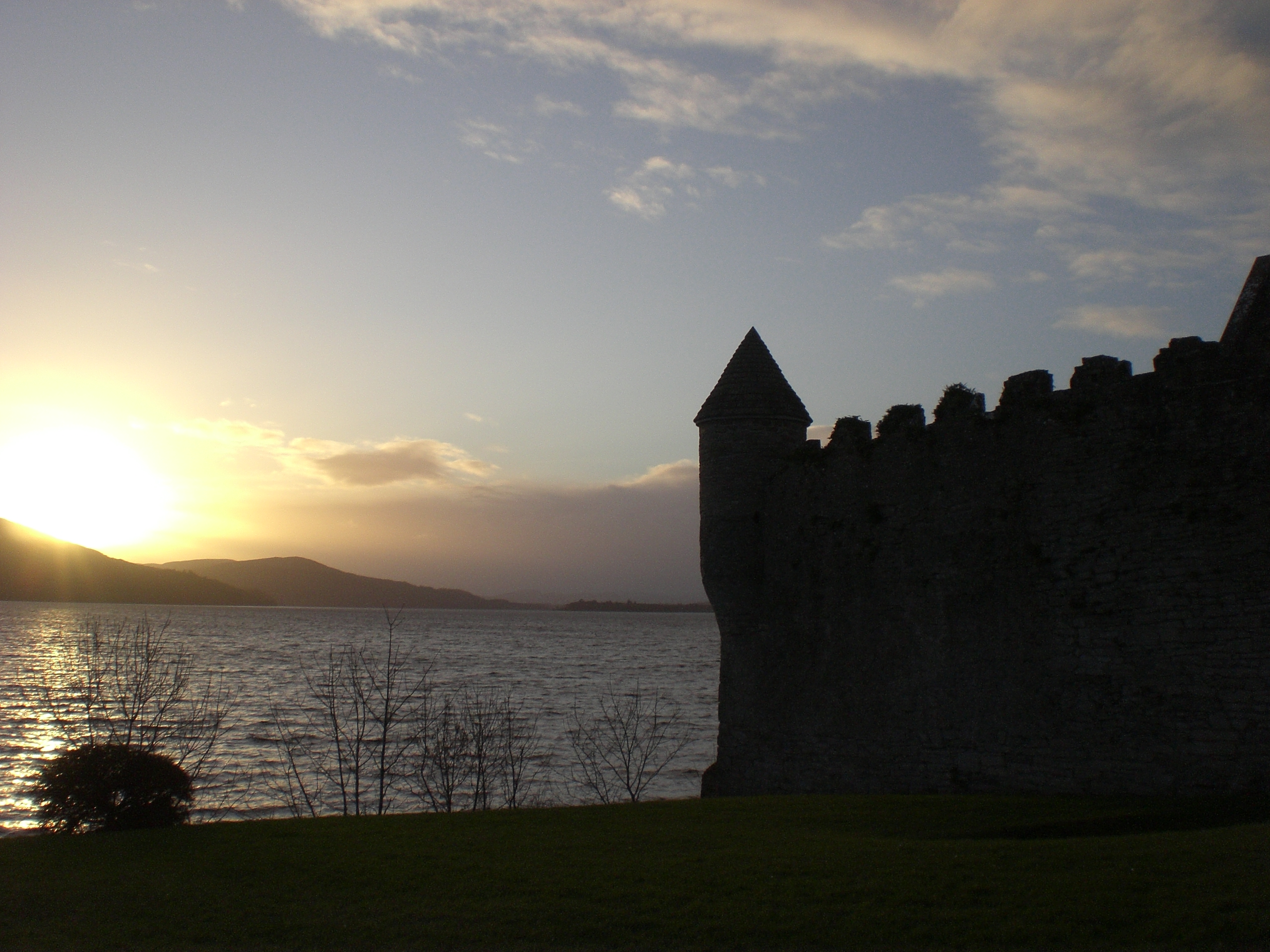 Parkes Castle at Sunset. Photo: Sytheston